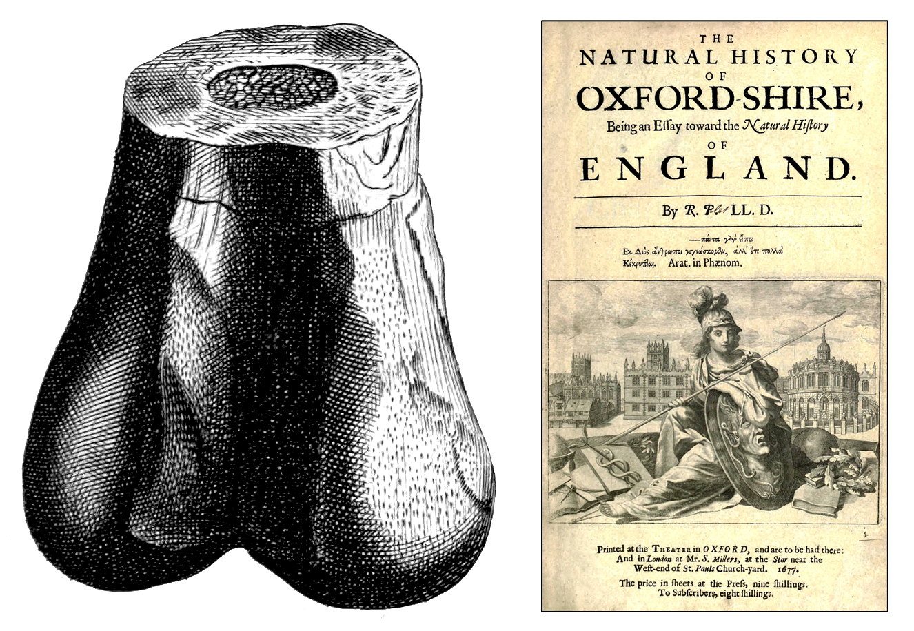 Cover of Robert Plot’s Natural History of Oxford-shire, 1677 (right), and illustration of a fossilized lower extremity of a presumed Megalosaurus femur (left) taken from plate VIII, fig. 4 of that book. The bone was described again by Richard Brookes in 1763 and captioned Scrotum humanum.